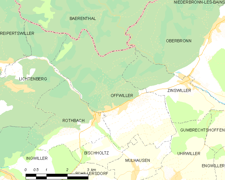 Map of French municipality